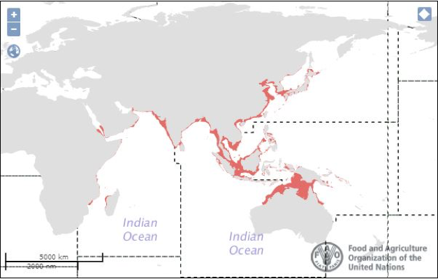 Fishing zones of torpedo scad